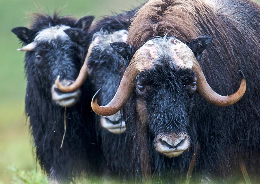 Three Wet Muskox